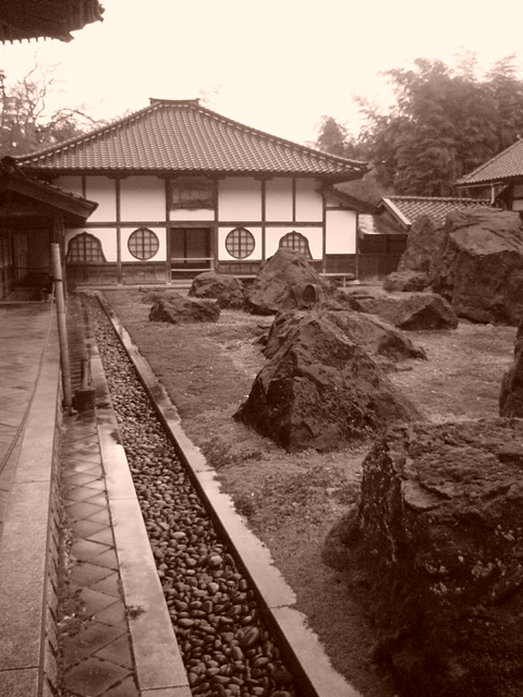 Rock garden in front of zendo at Kokutai-ji in Toyama, Japan